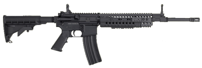 An image of a Barrett REC7. By Tominator.